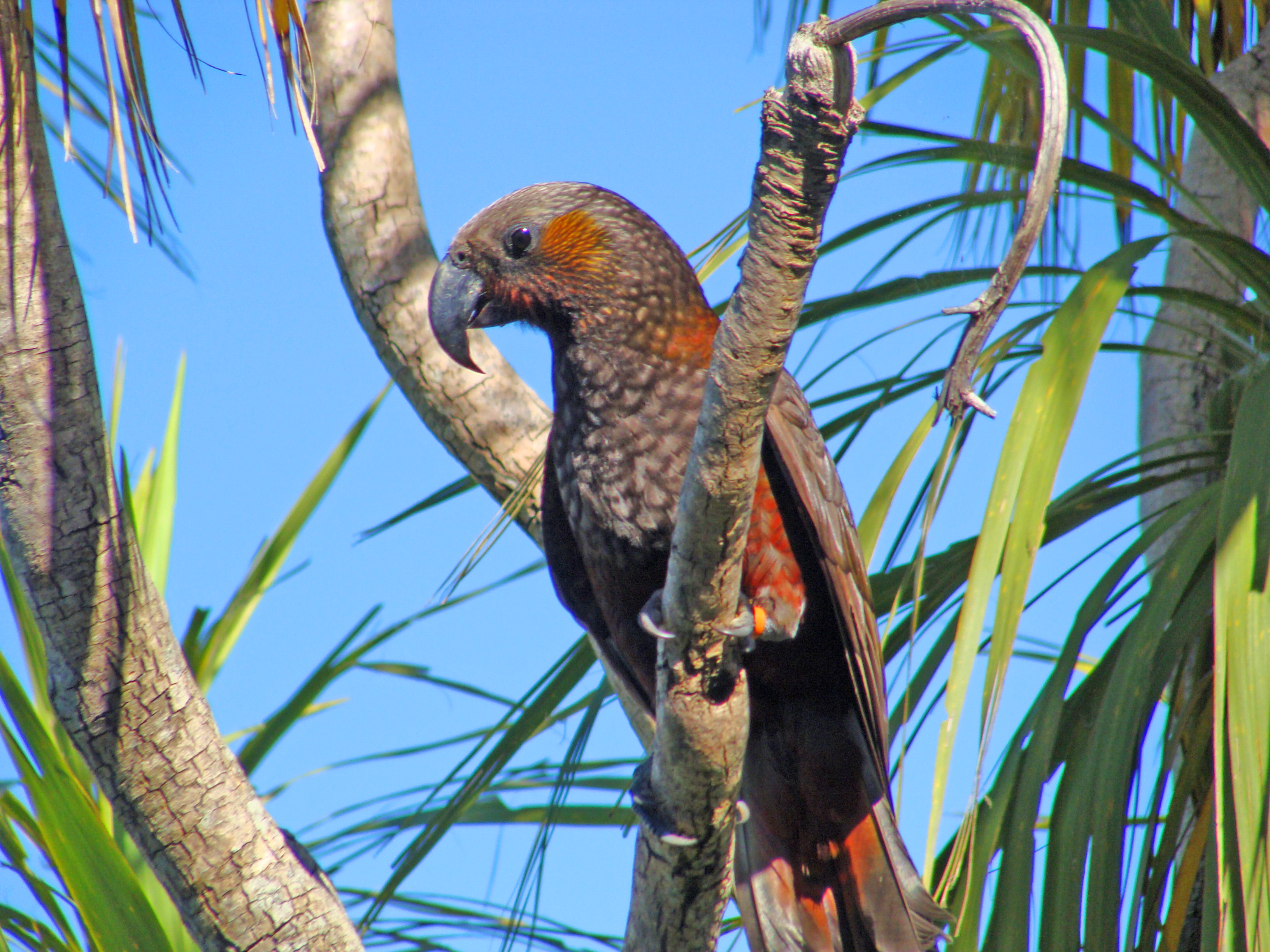 Kākā (Nestor meridionalis) in Willington, New Zealand.